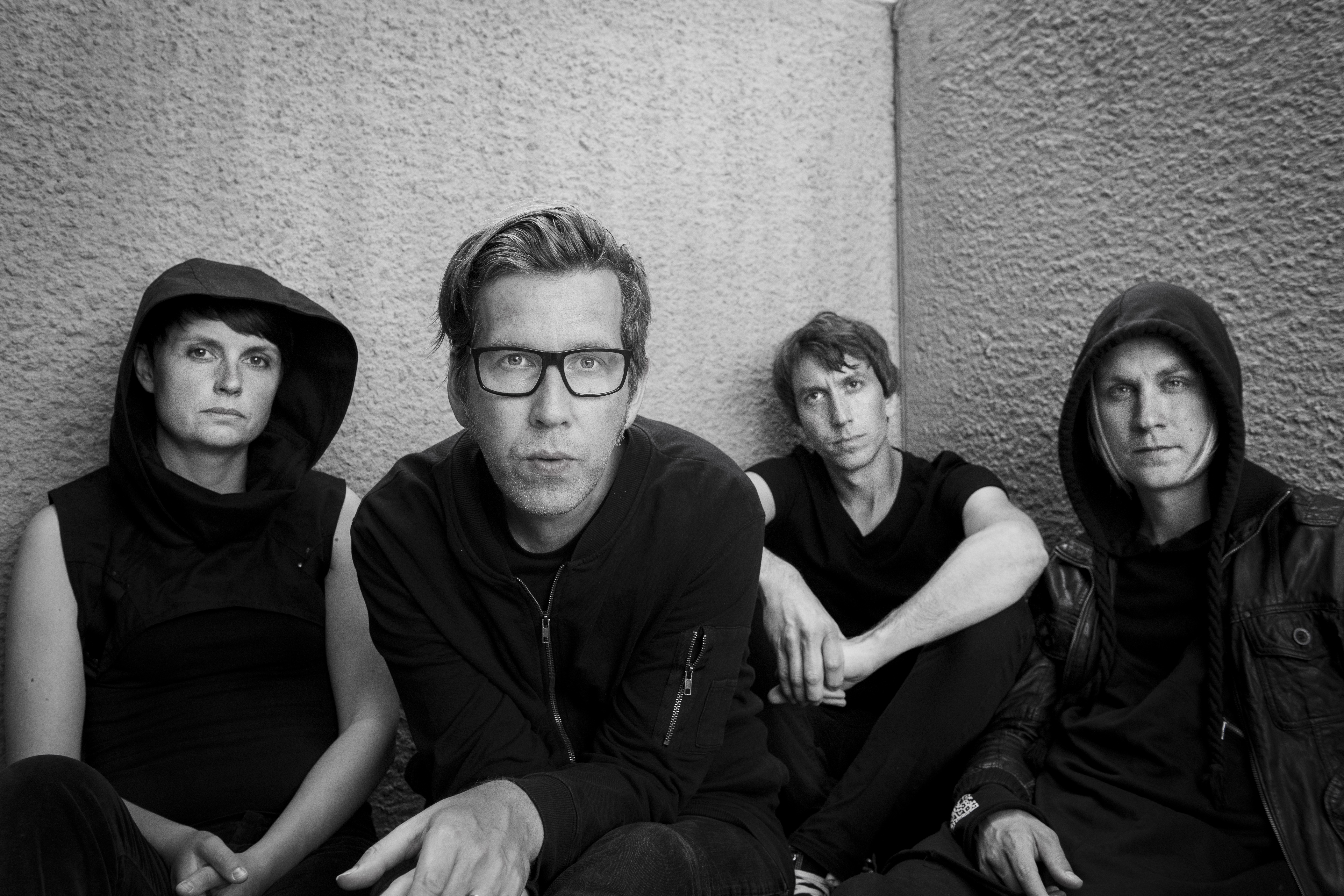 Photo of Kolbacken. Left to right: Zarah, Mikael, Staffan, Fredrik.